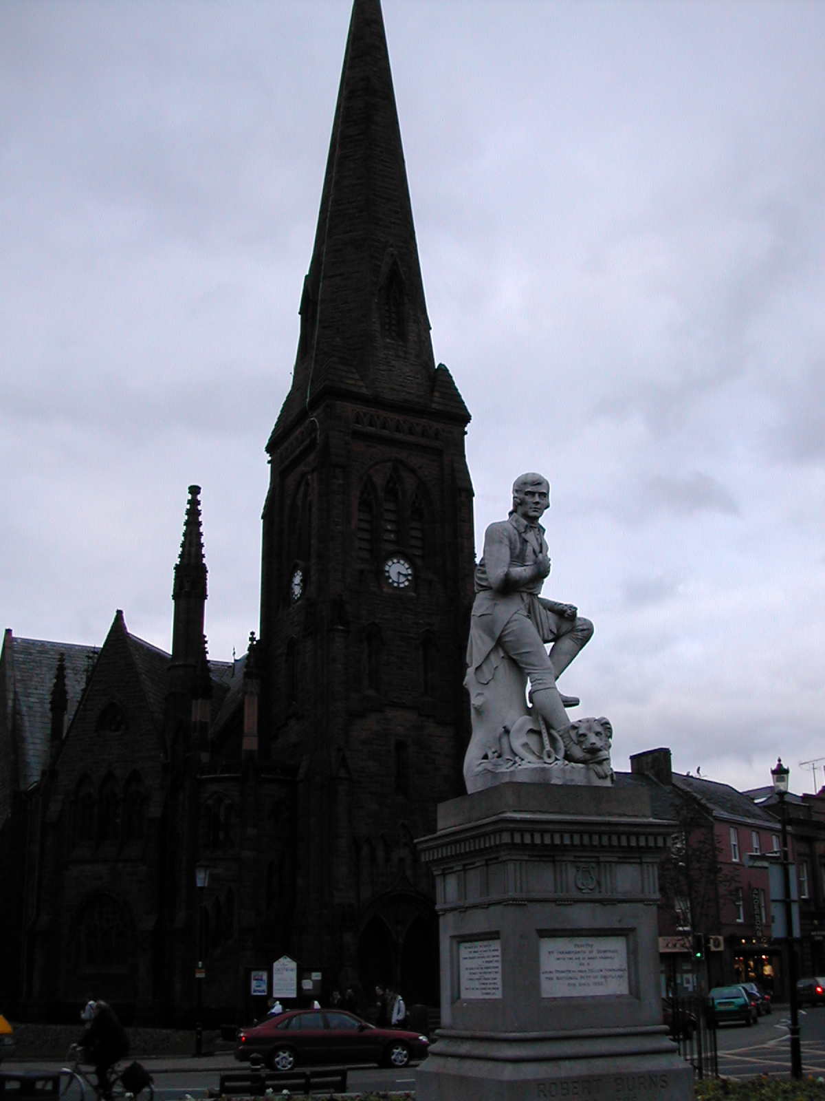 Statue of Robert Burns in front of Greyfriars Church, Dumfries